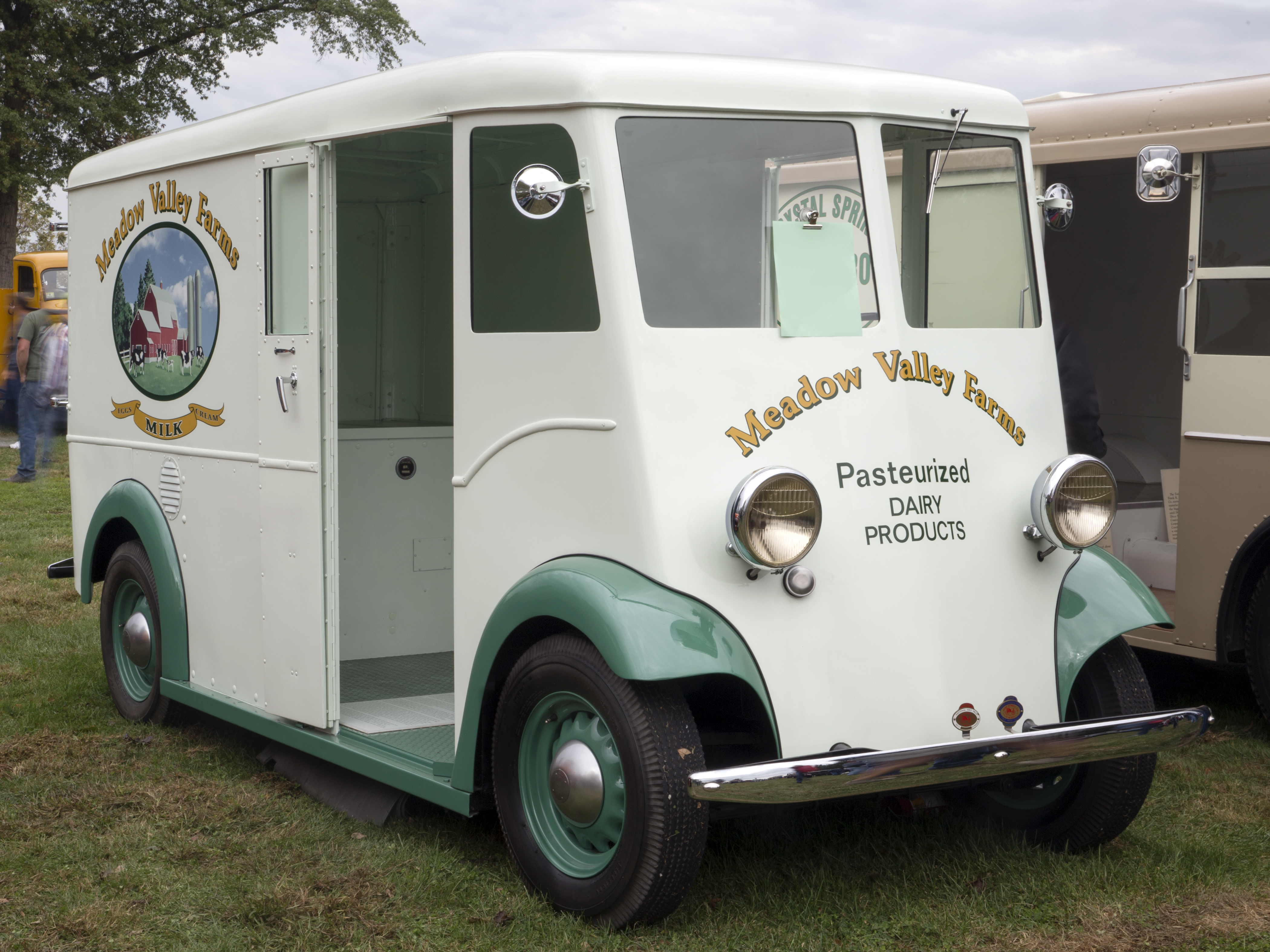 A 1937 Stutz Pak-Age-Car delivery truck in the show area at Hershey 2019. Long wheelbase version, Hercules four-cylinder engine.